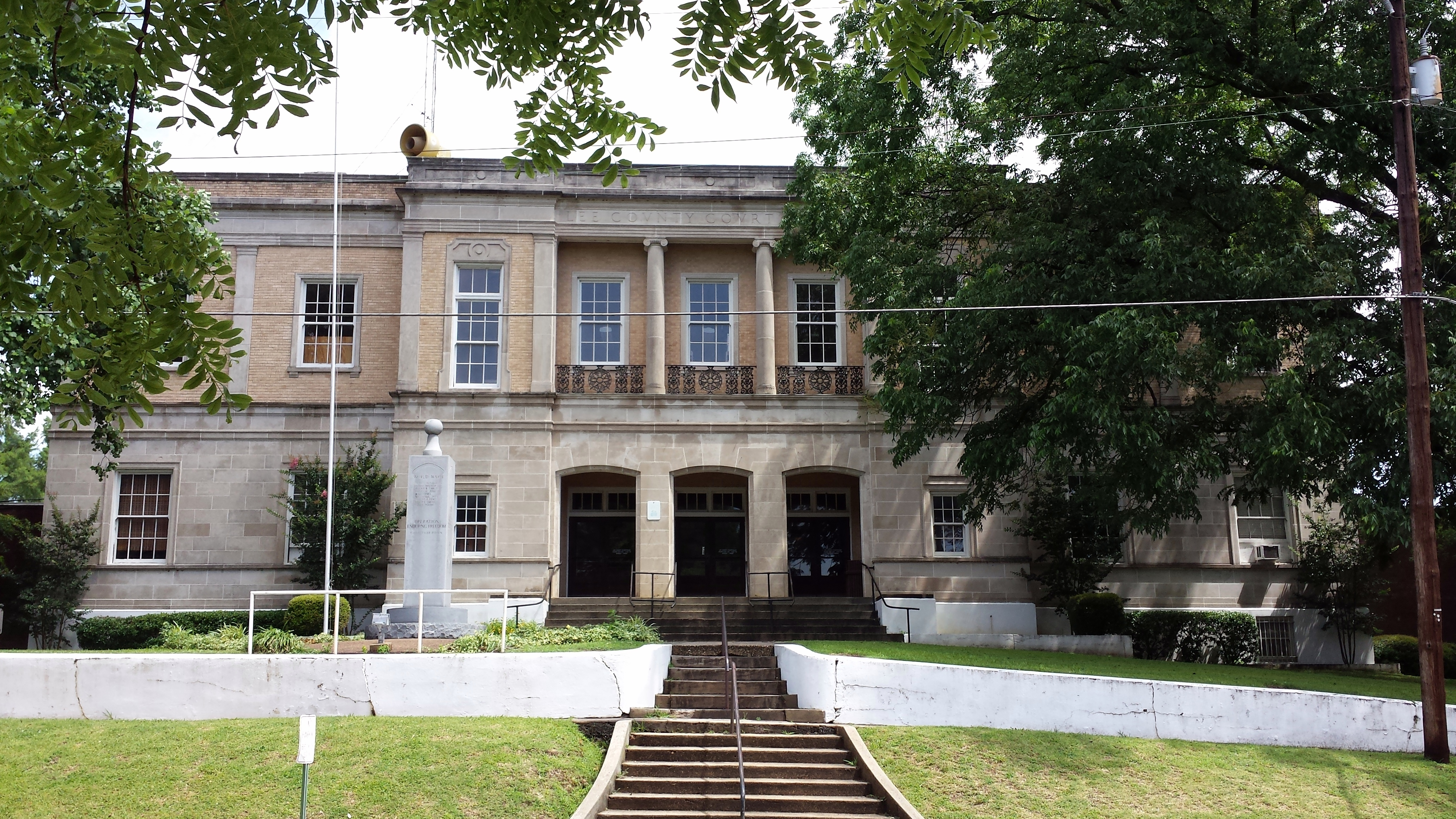 Facade